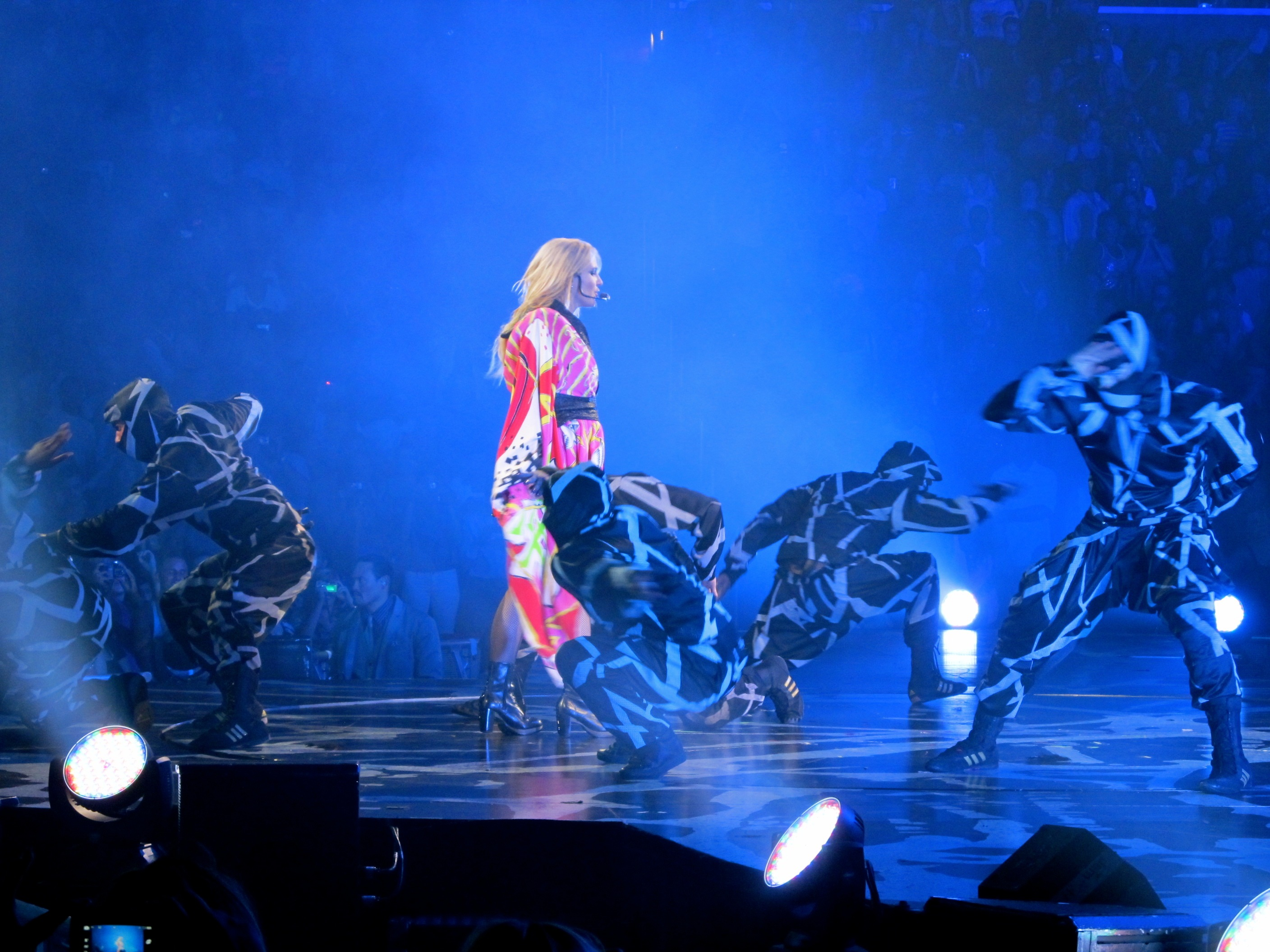 Spears performing "Toxic" at the Femme Fatale Tour.